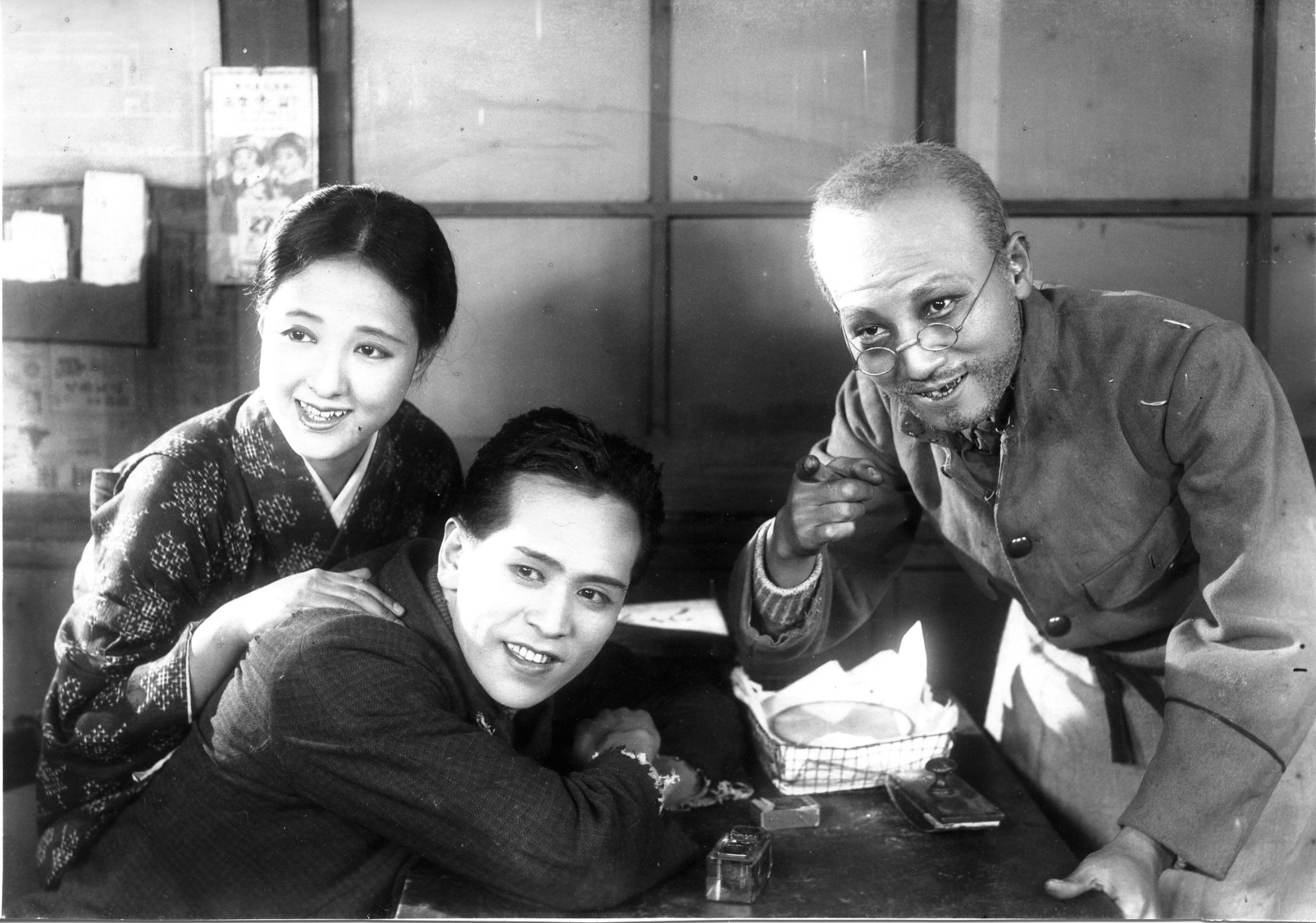 Hisako Takihana (left) and Kōji Shima (center) in Ase (汗) directed by Tomu Uchida - 1929